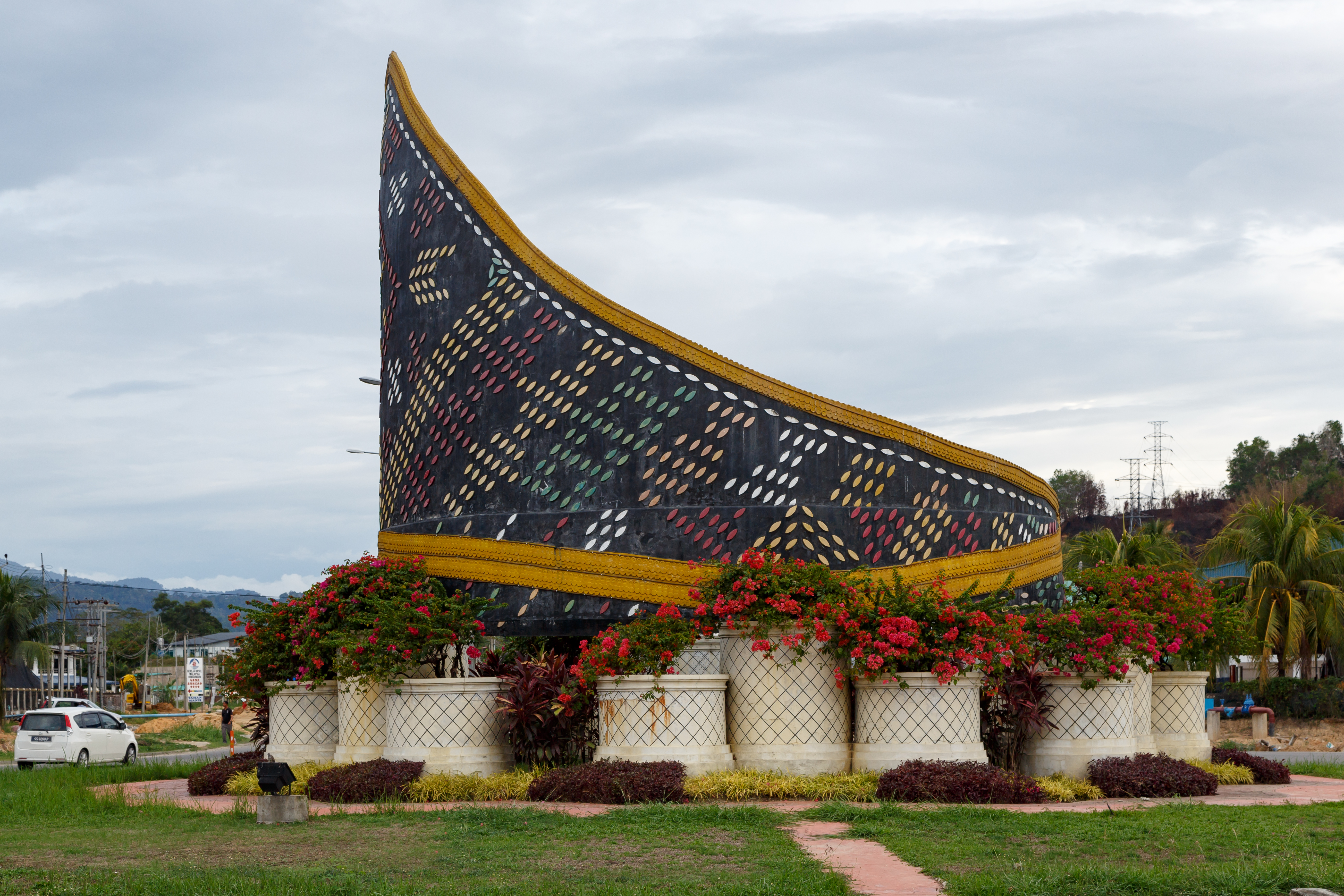 Donggongon, Sabah: Sculpture at Penampang Roundabout, depicting a traditional headgear)